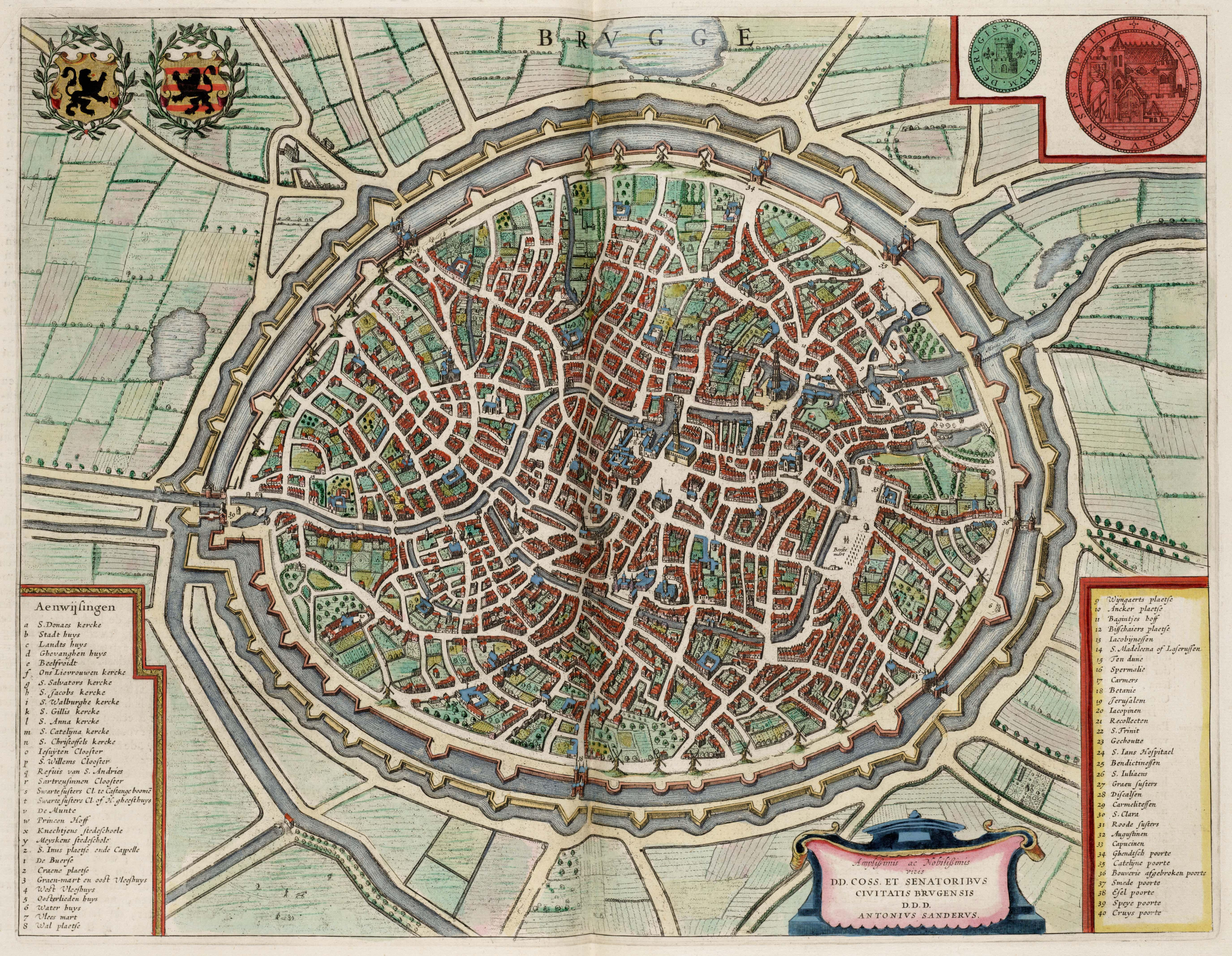 Bruges (Brugge).